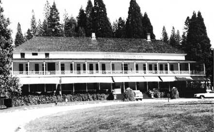 United States National Park Service photo of the Wawona Hotel main building, Wawona, California, Yosemite National Park